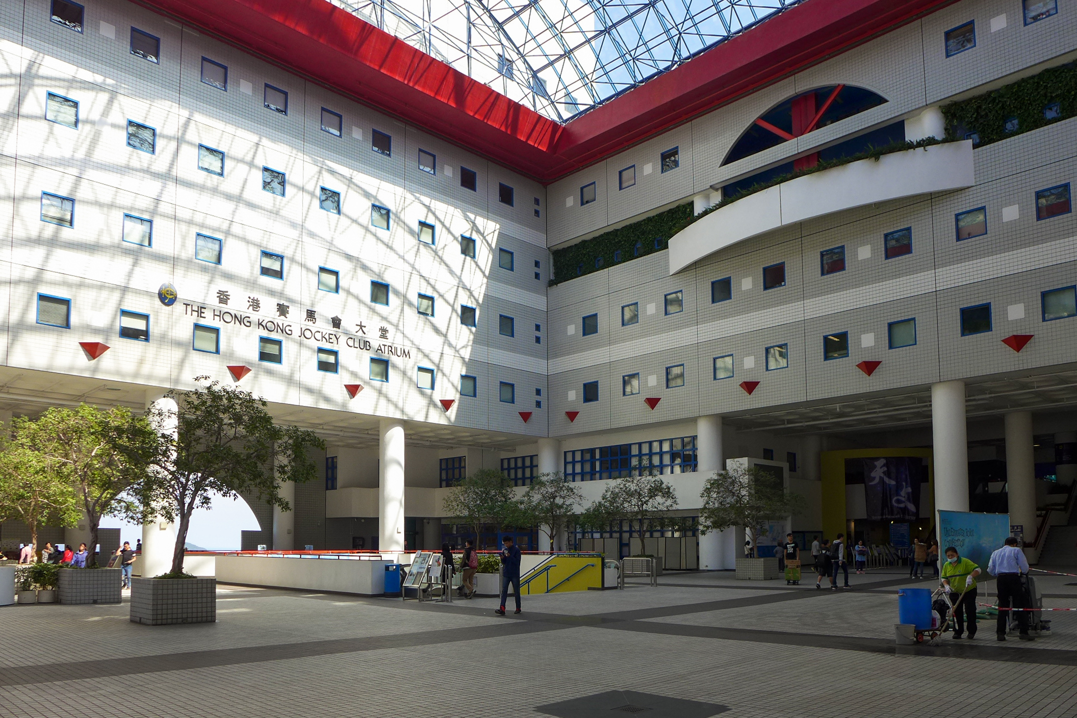 HKUST Jockey Club Atrium